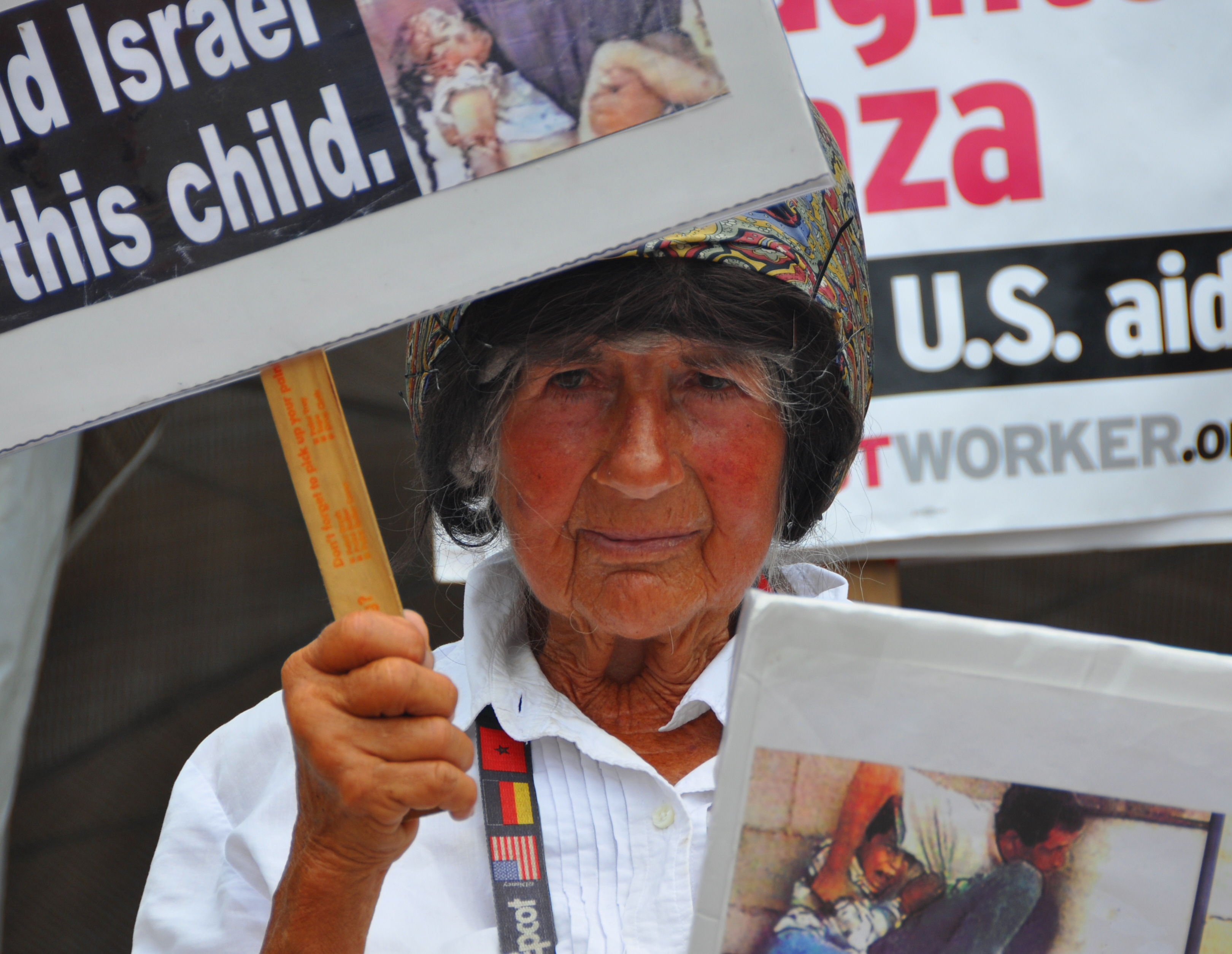 This Picture was taken of Concepcion Picciotto June 15,2010 at 10:28am out front of the White House in Washington DC